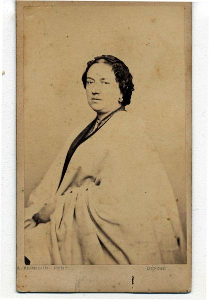 Alphonse Bernoud (1820-1889) - Italian opera singer Balbina Steffenoni (spellings vary..